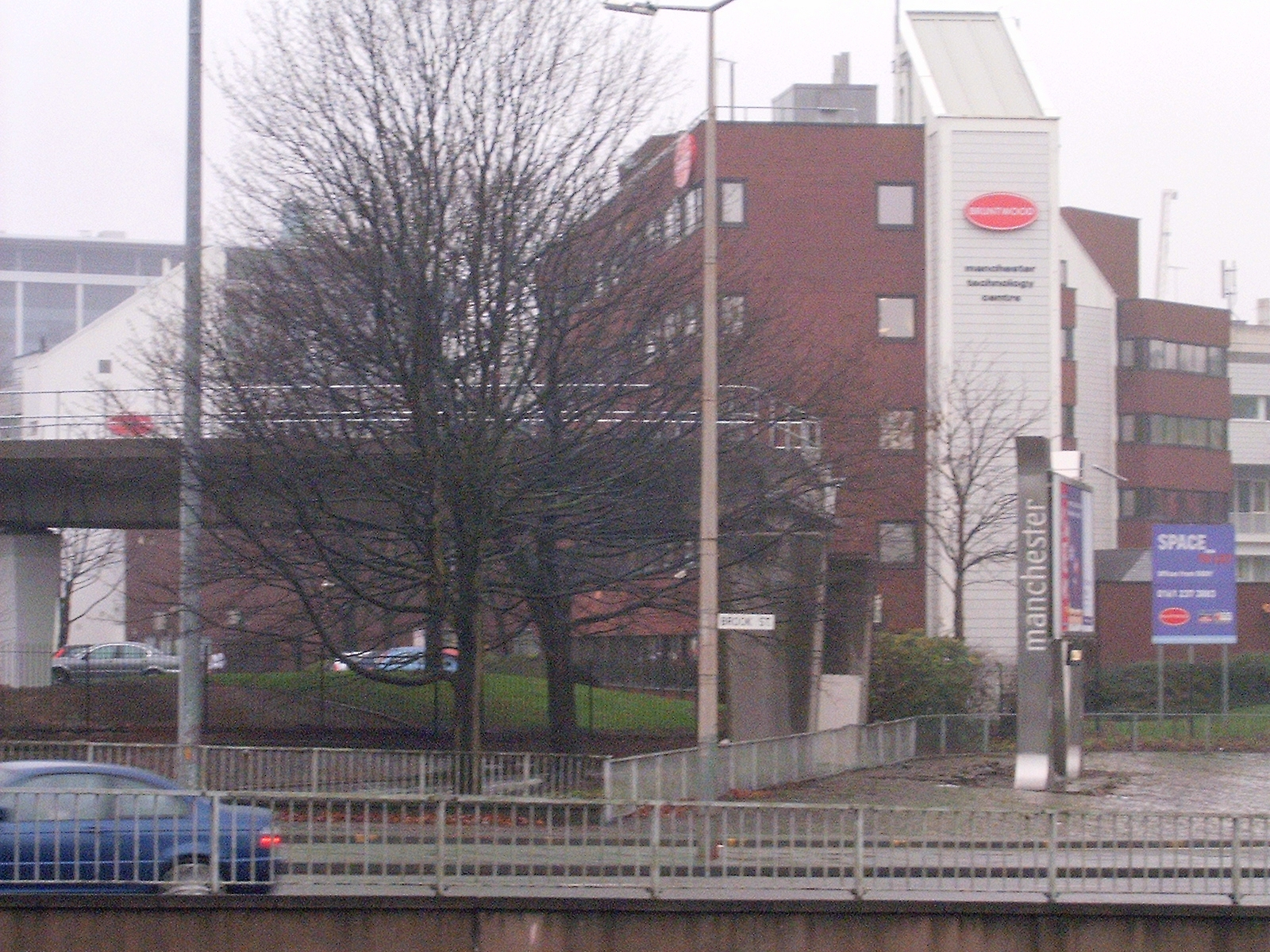 Ghost ramp at the junction of the Mancunian Way with the A34 road